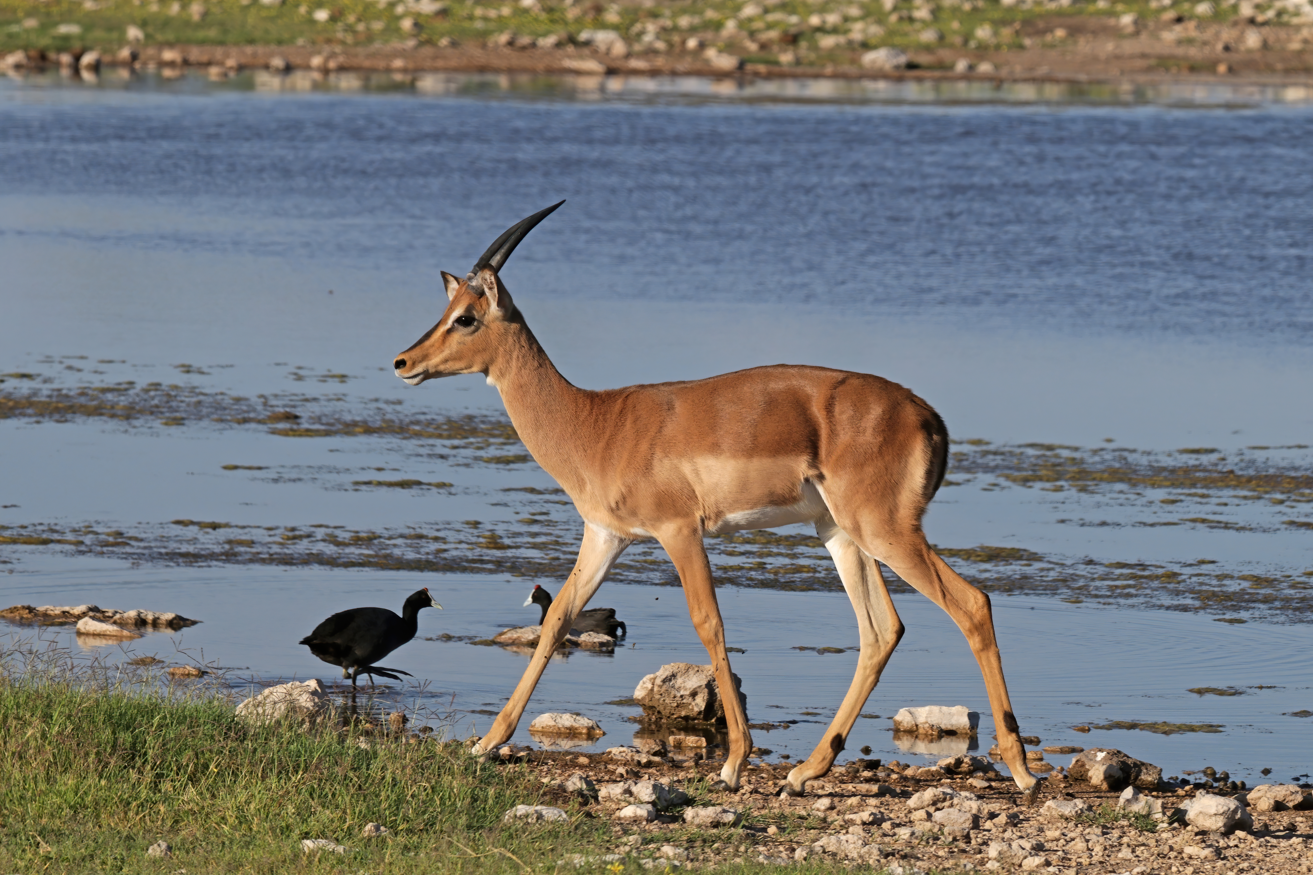 Black-faced impala (Aepyceros melampus petersi) juvenile male, Etosha National Park, Namibia